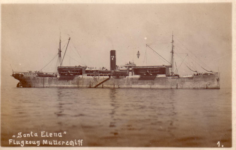 German steamer Santa Elena in World War I, after conversion to a seaplane tender.